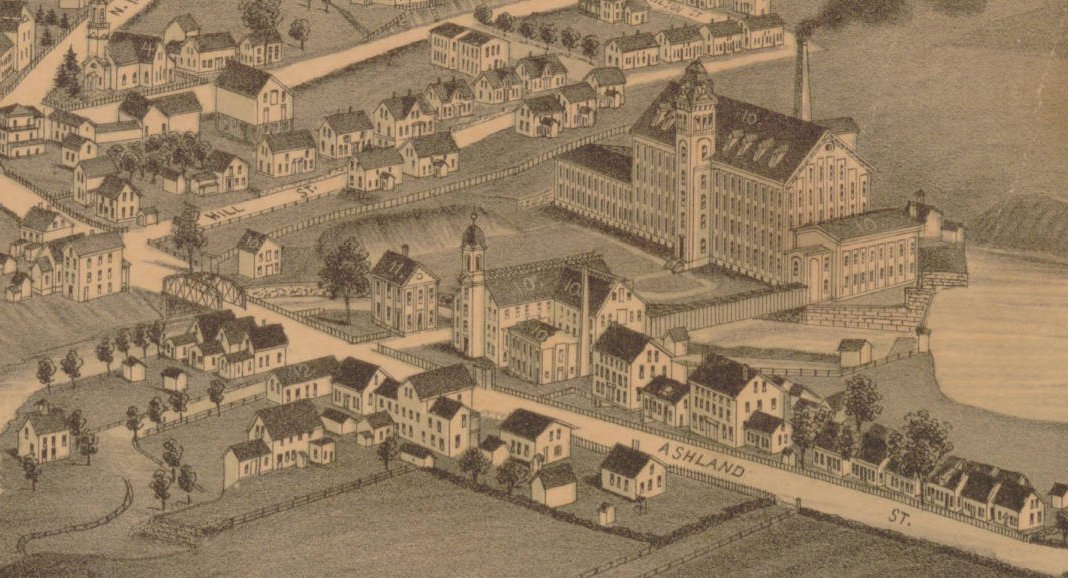 Ashland Cotton Mill complex, extract from an 1889 bird's eye view print. The Ashland Street bridge on the left is listed on the National Register of Historic Places.